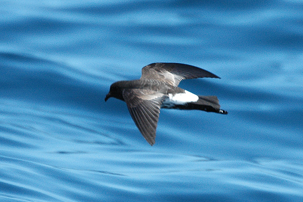 New Zealand Storm-petrel (Oceanites maorianus)